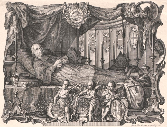 Cardinal Damian Hugo Philipp von Schönborn (1676-1743) on the deathbed